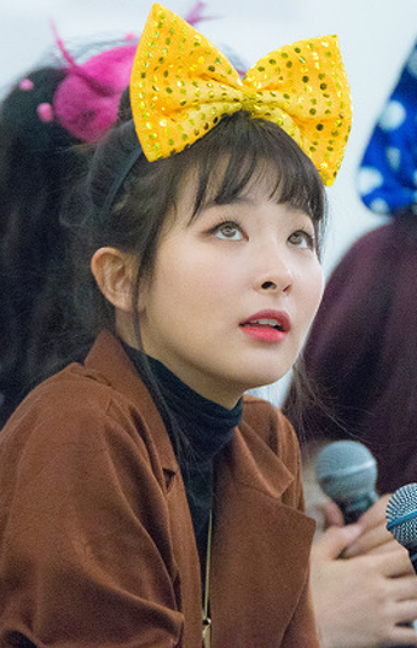 Kang Seul-gi at a fansigning event on February 2, 2018.